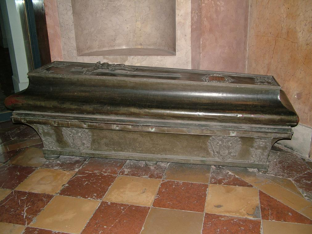 Austria, Vienna, Capuchin Church, Imperial Crypt